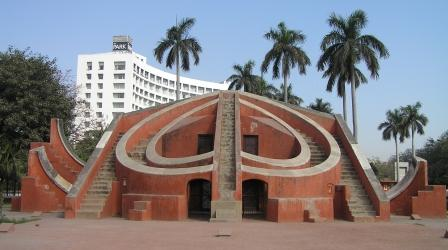 Jantar Mantar, New Delhi with Park Hotel